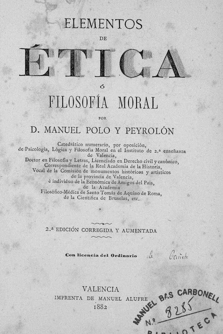 front cover of Elementos de etica by Manuel Polo y Peyrolon, 1882